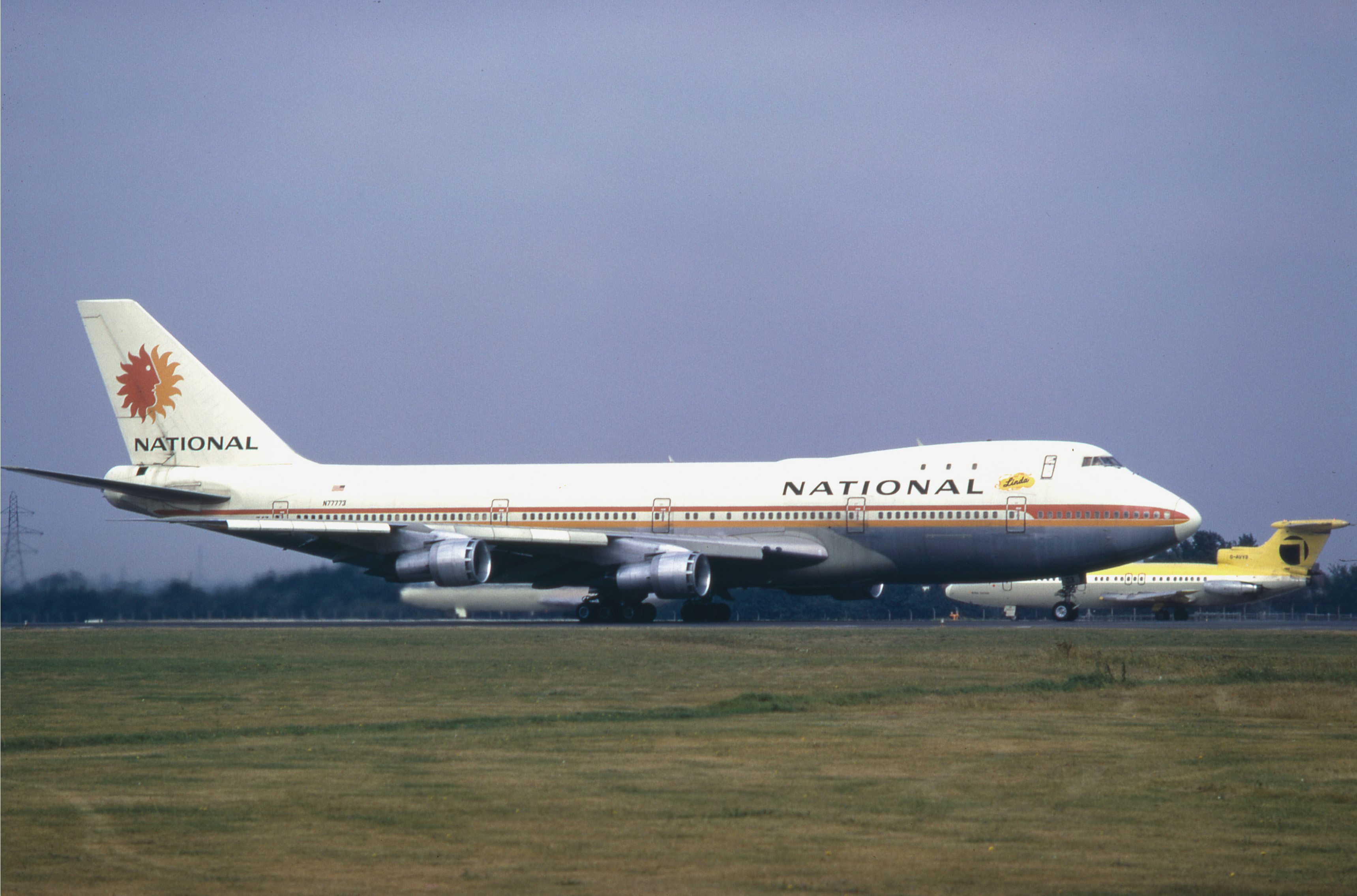 July 1973, London Heathrow, 09R.